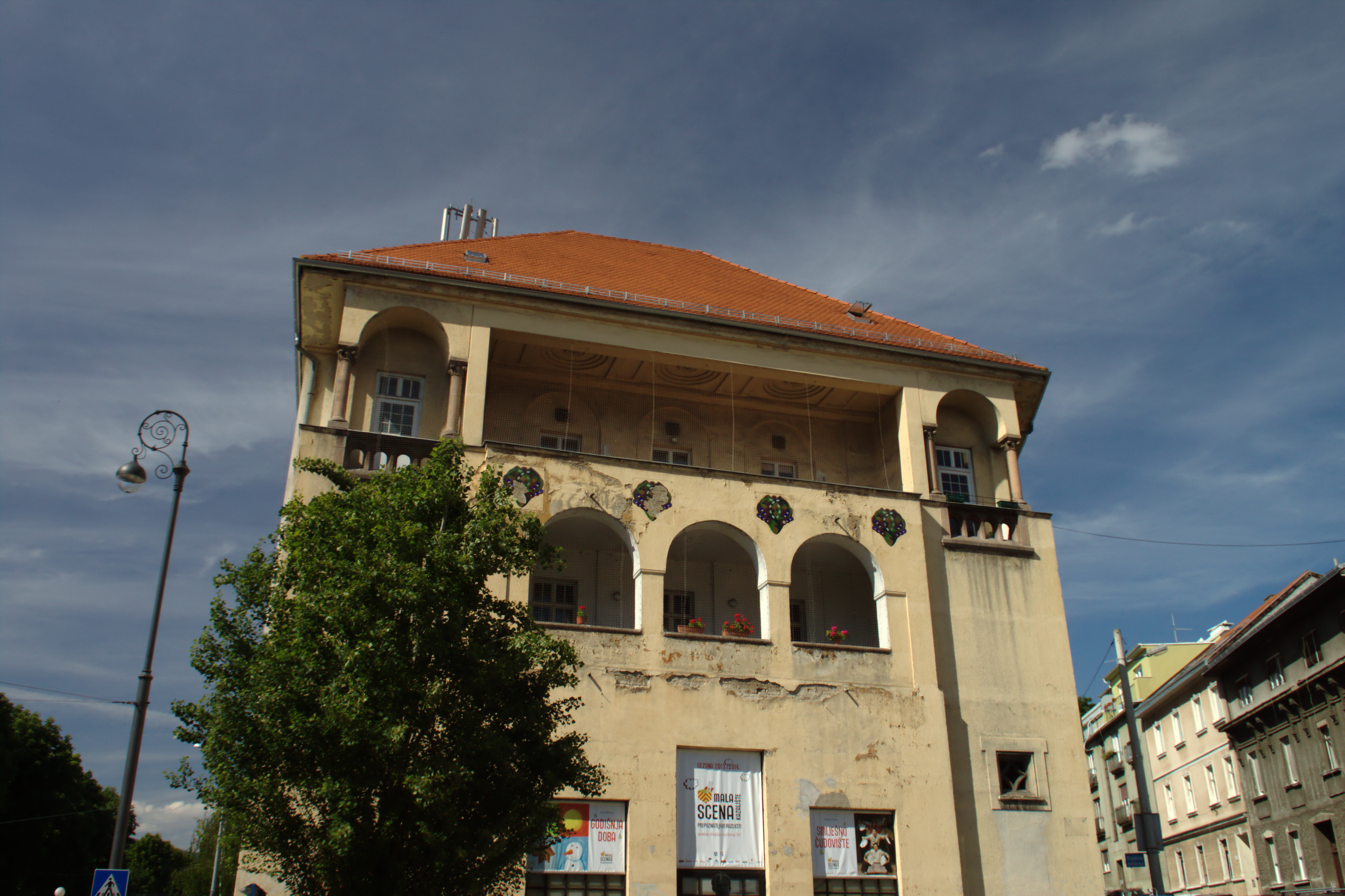 Small scene building in Zagreb, Ribnjak Street, Croatia